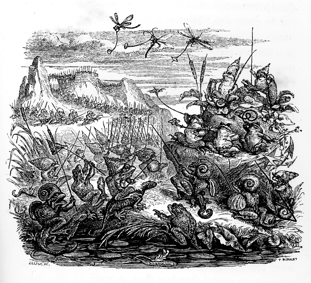 Illustration for the Fight between rats and frogs by Homer.